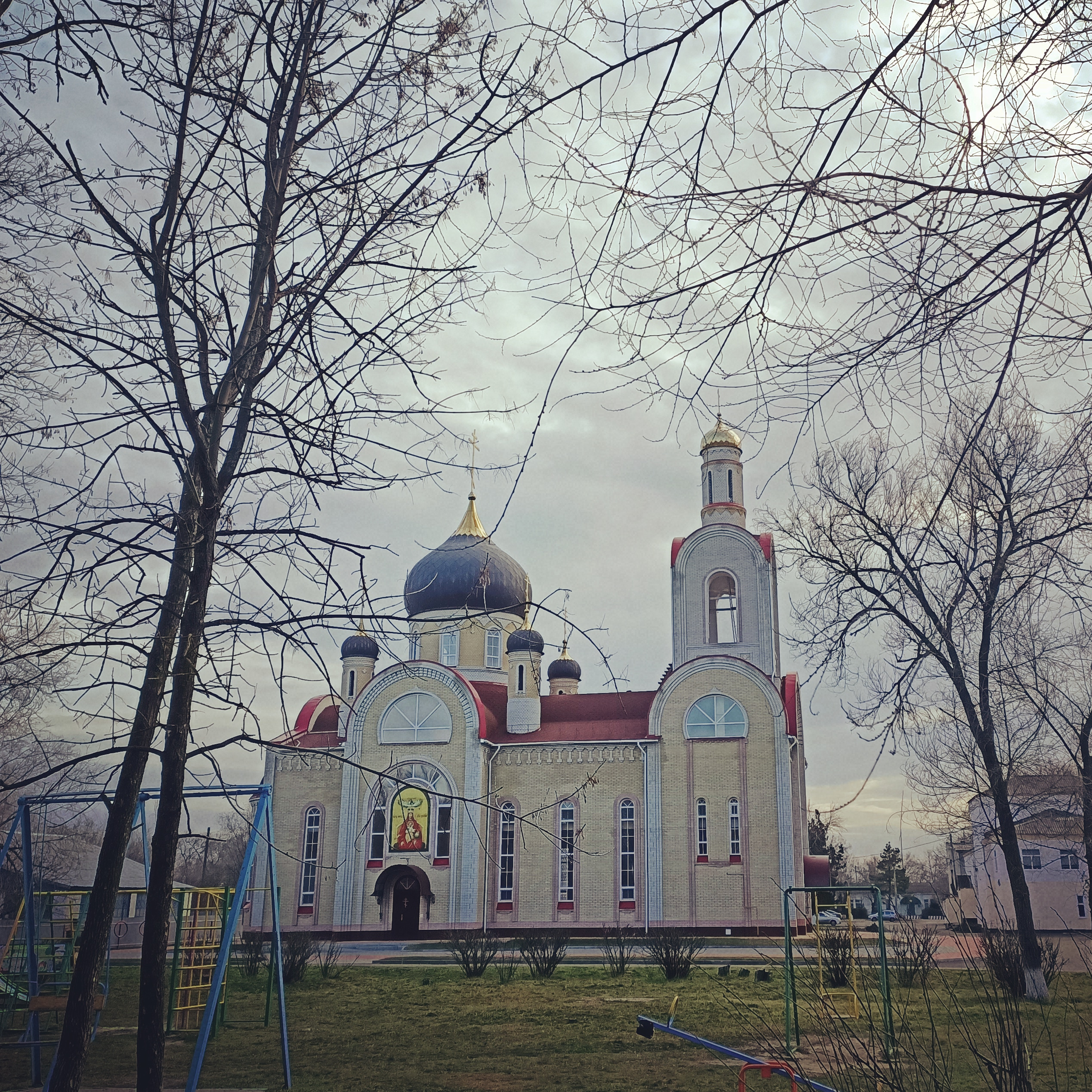 Фото православного храма св. Цесаревича Алексия. Торжественно открыт в 2018 г.